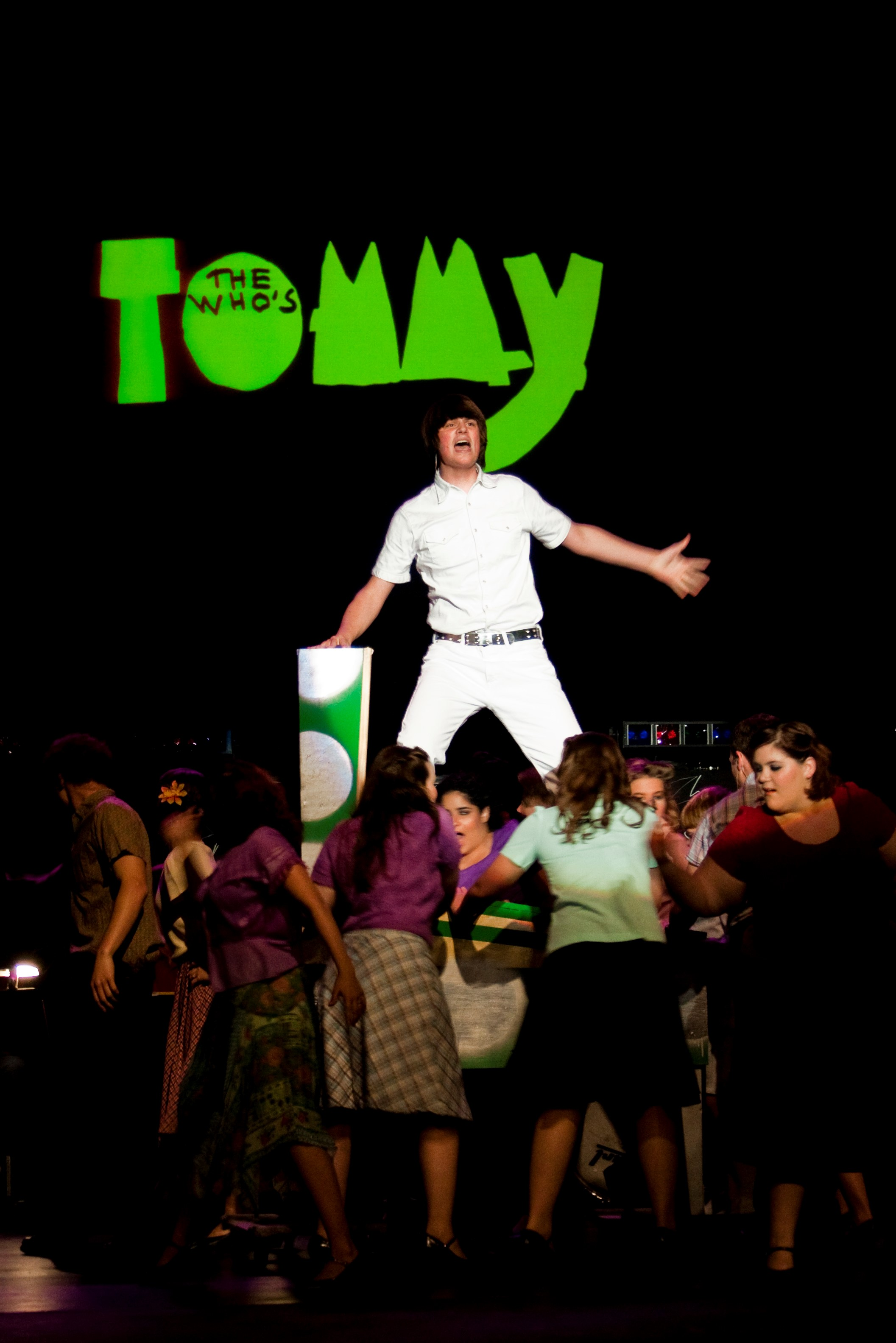 CF's Variations' performance of The Who's rock opera, Tommy.